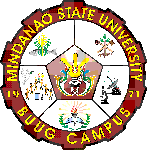 Official Seal